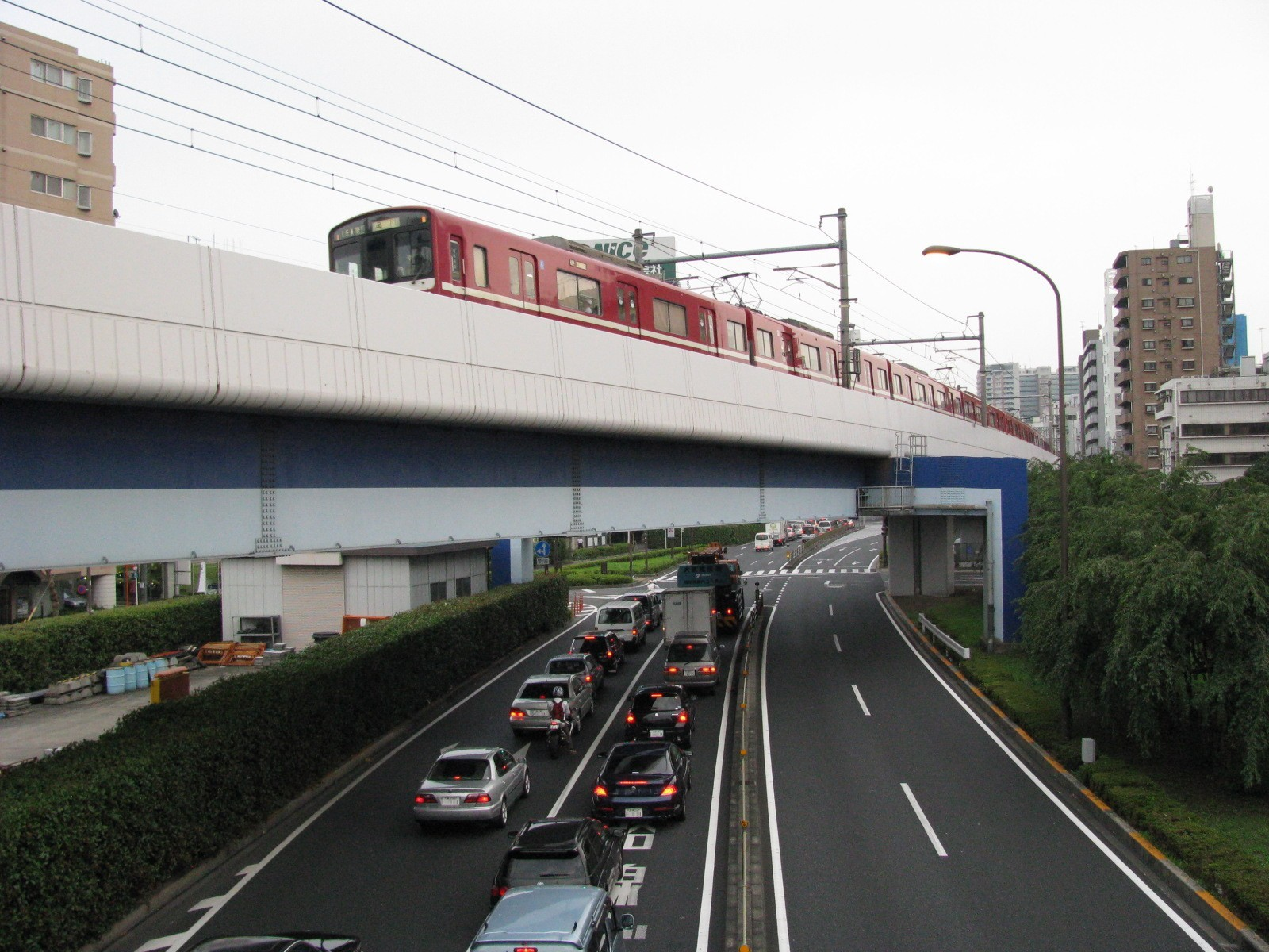 The Suzugamori overpass of Keikyū Main Line with National Route 15, located in Shinagawa, Tokyo, Japan.